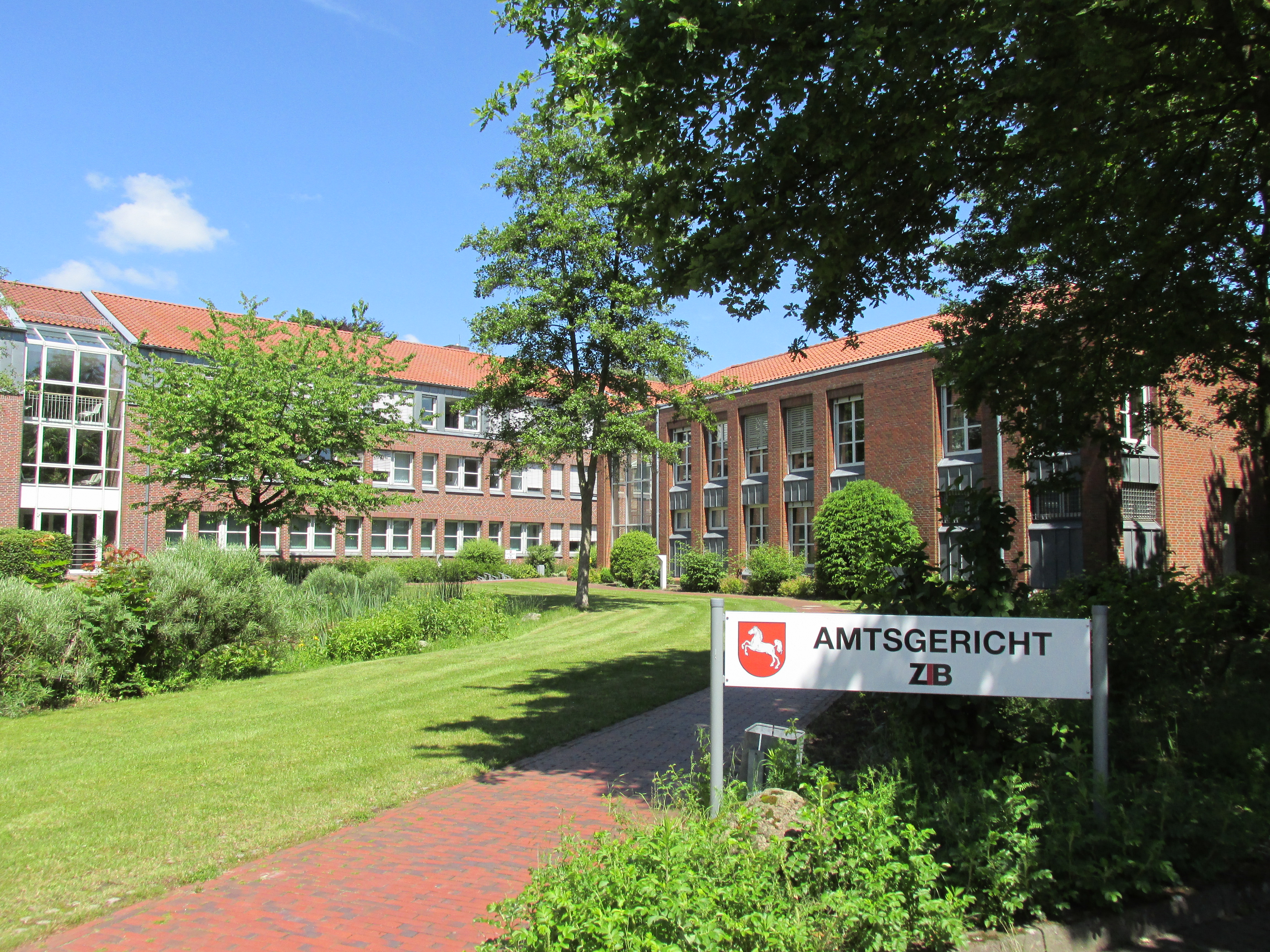 Courthouse Amtsgericht Wildeshausent, Wildeshausen, Germany